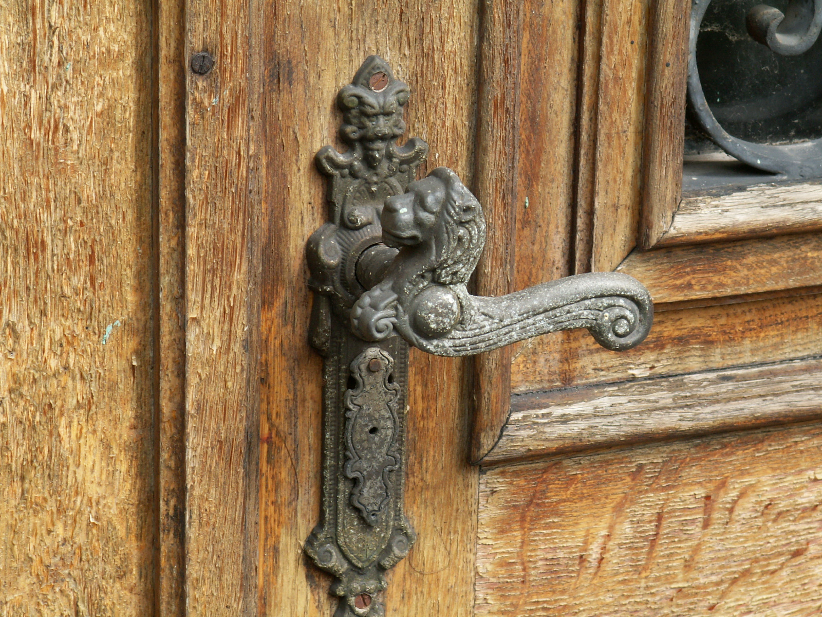 Synagogue in Kalwaria Zebrzydowska